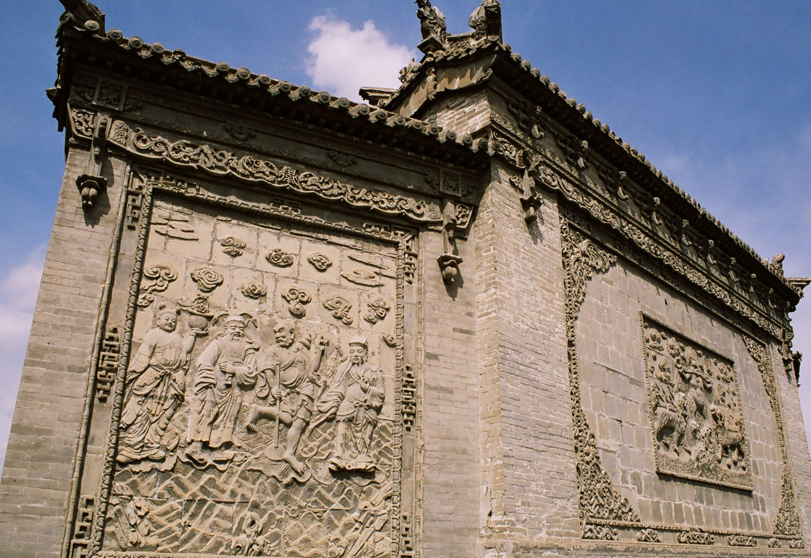 Walls in Choijin Lama Monastery, Ulan Bator, Mongolia.